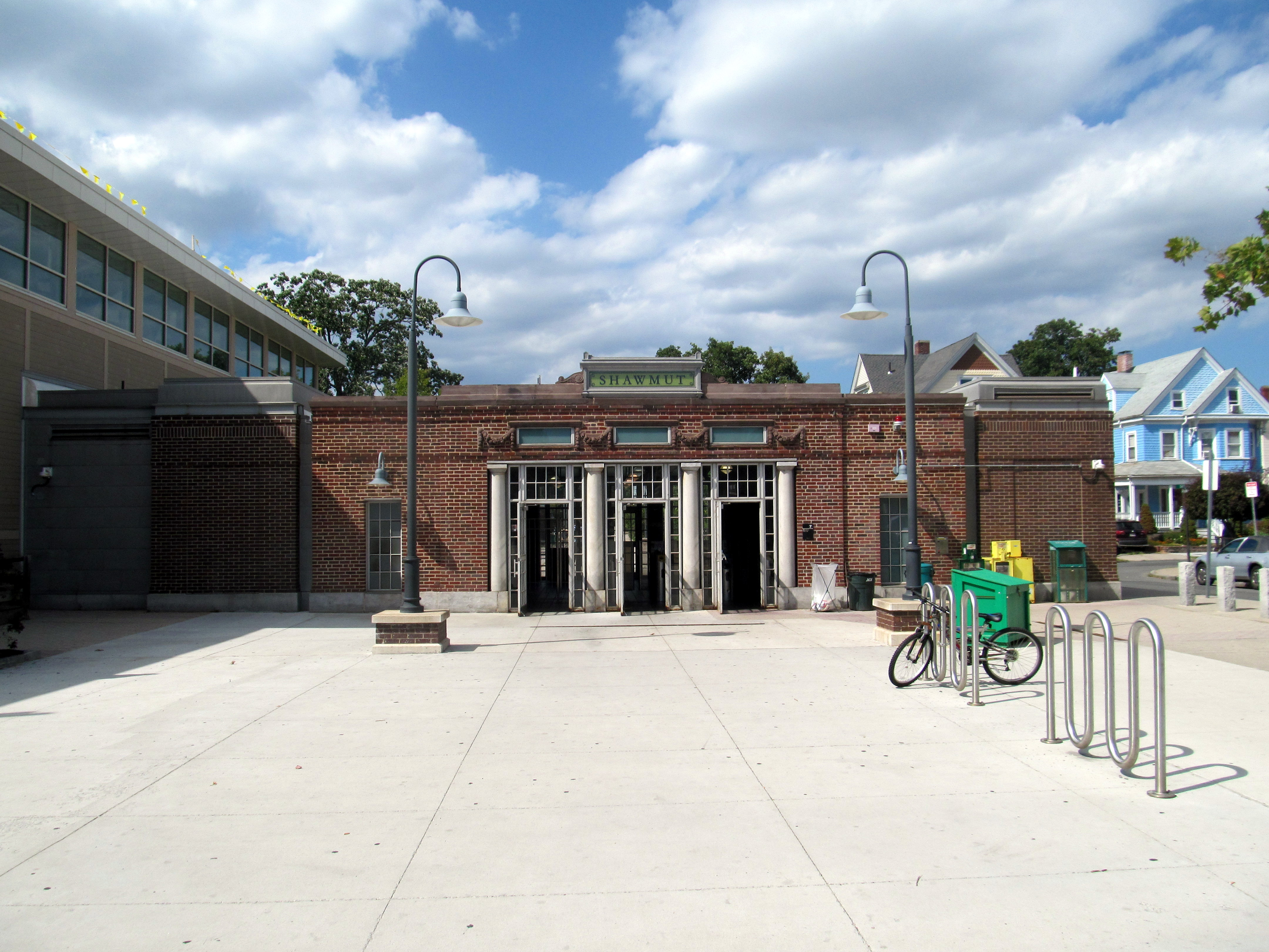 Shawmut station in August 2016